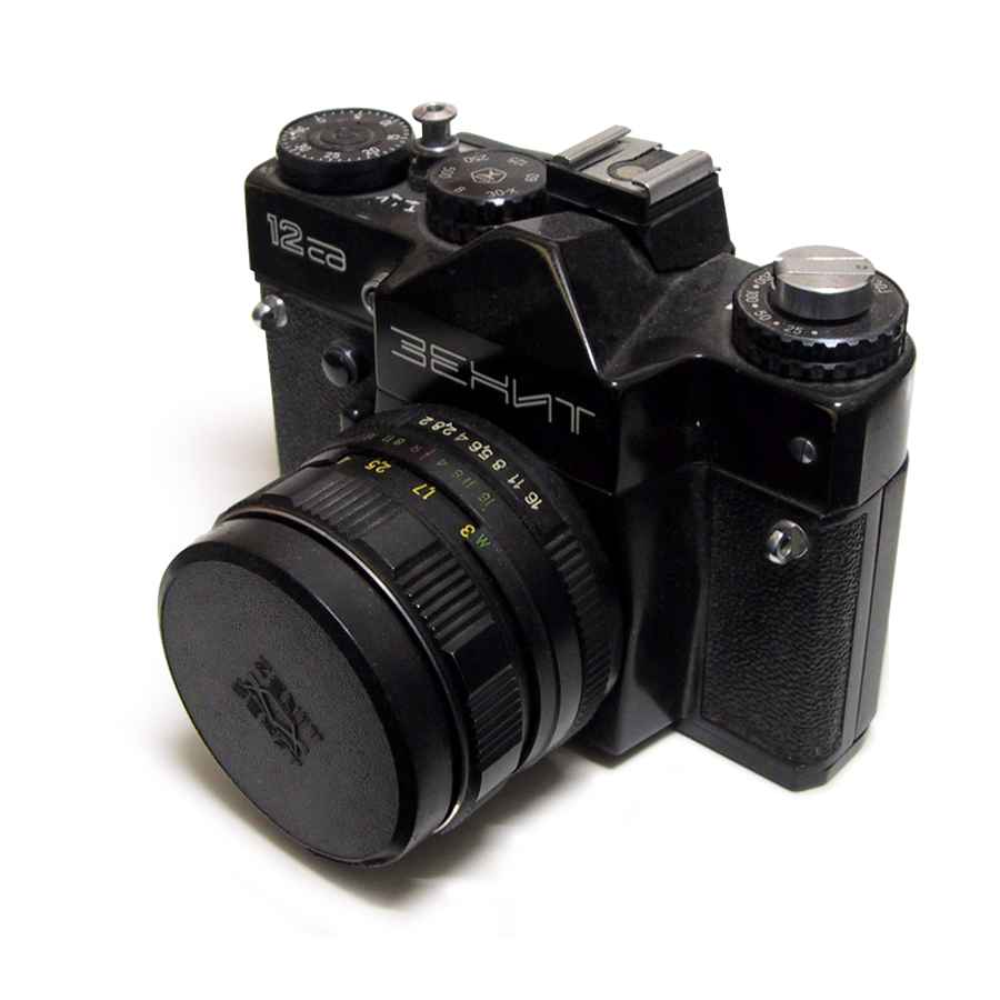 Zenit 12sd photo camera